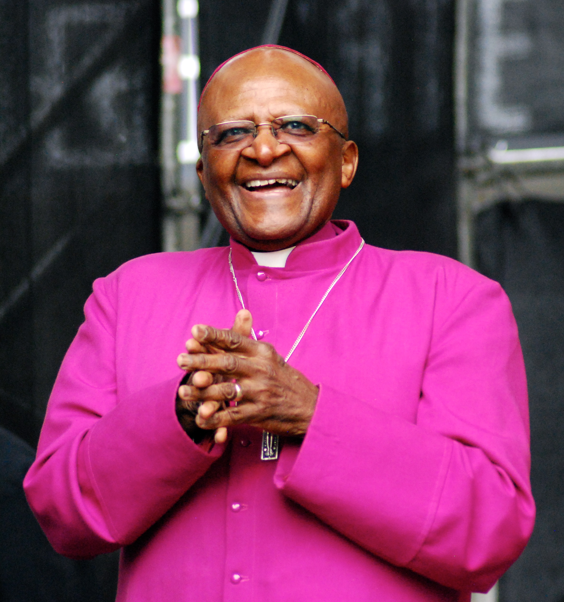 Archbishop Tutu at the COP17 "We Have Faith: Act Now for Climate Justice" Rally on 27 Nov 2011 in Durban, South Africa. (Photo by Kristen Opalinski/LUCSA)